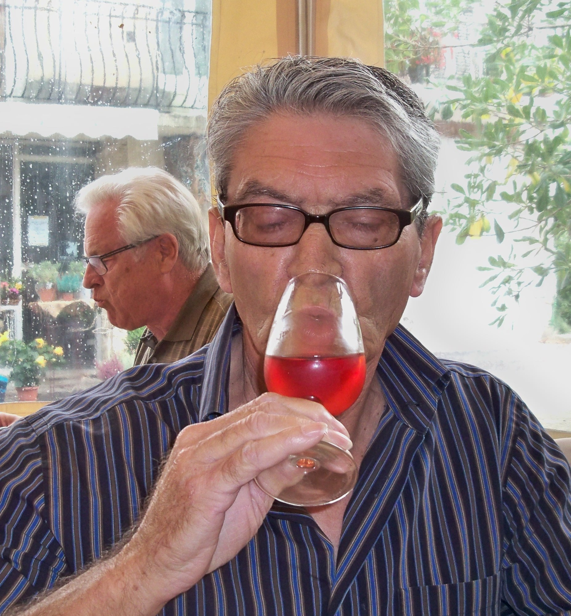 wine tasting